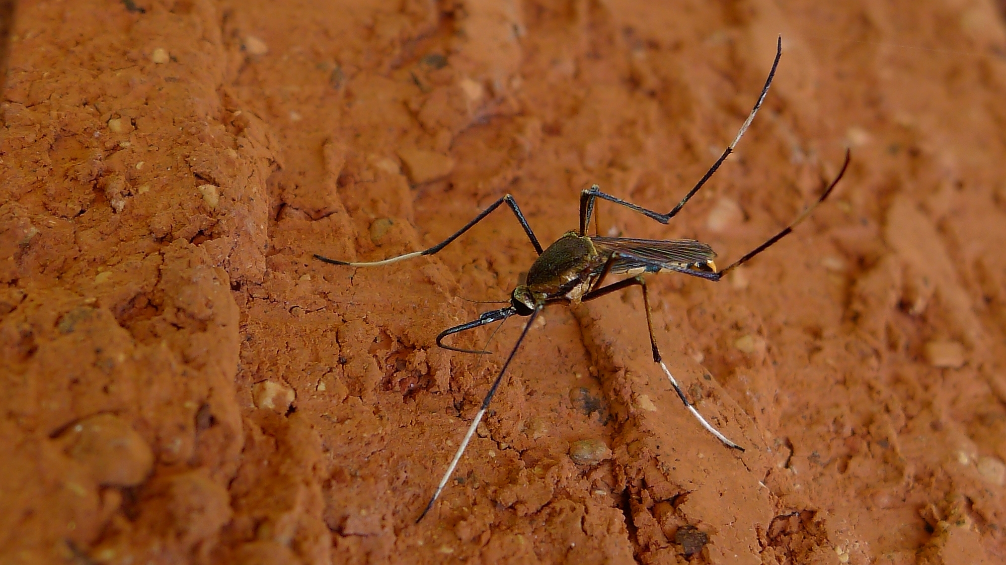 A very large mosquito, also known as an elephant mosquito, a female Toxorhynchites speciosus. Como NSW Australia, November 2012. According to University of Sydney Department of Medical Entomology, the adult females are very distinctive with their metallic appearance, large size, bent and recurved proboscis, and abdominal lateral scale tufts. Unlike the males, the females also have un-feathered antennae, as is the case with mosquitoes in general.